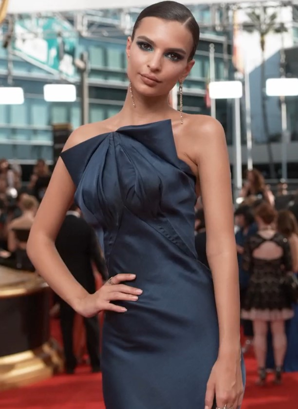 Emily Ratajkowski at Emmy Awards Red Carpet in 2016